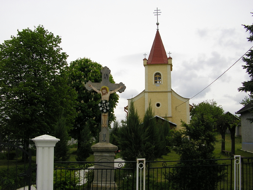 Greek catholic church Ptrukša, Slovakia